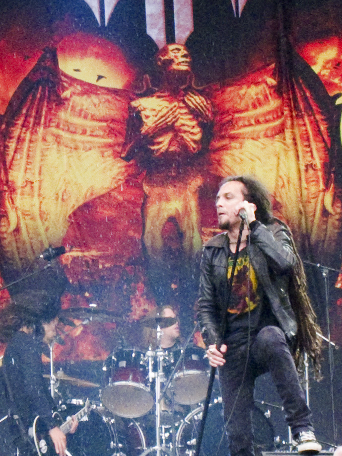 Mark Osegueda with Death Angel playing at Sauna Open Air 2010. Location: Tampere, Finland.